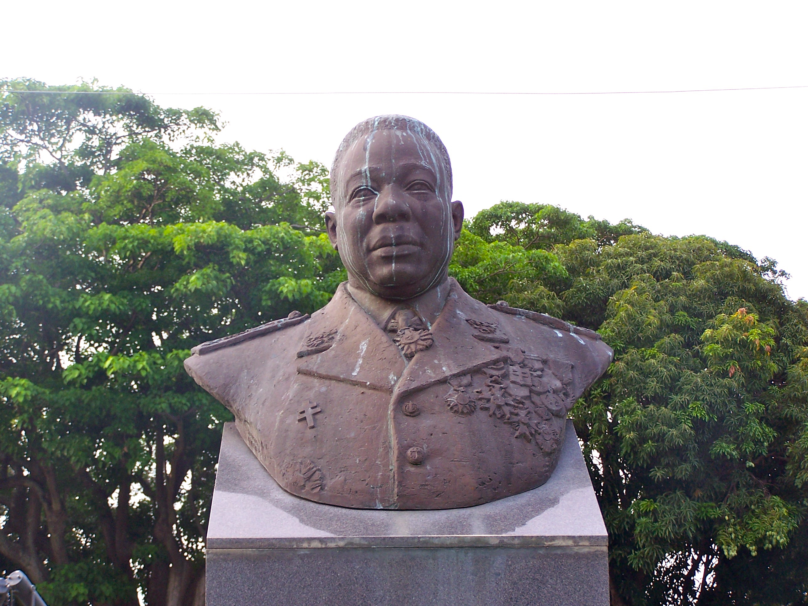 Buste de Félix Éboué, place de la Victoire à Pointe-à-Pitre